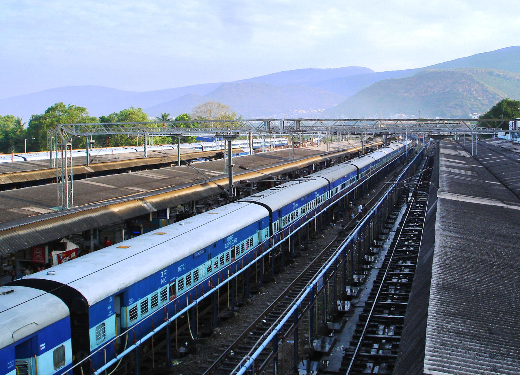 An overview of the Visakhapatnam railway station.